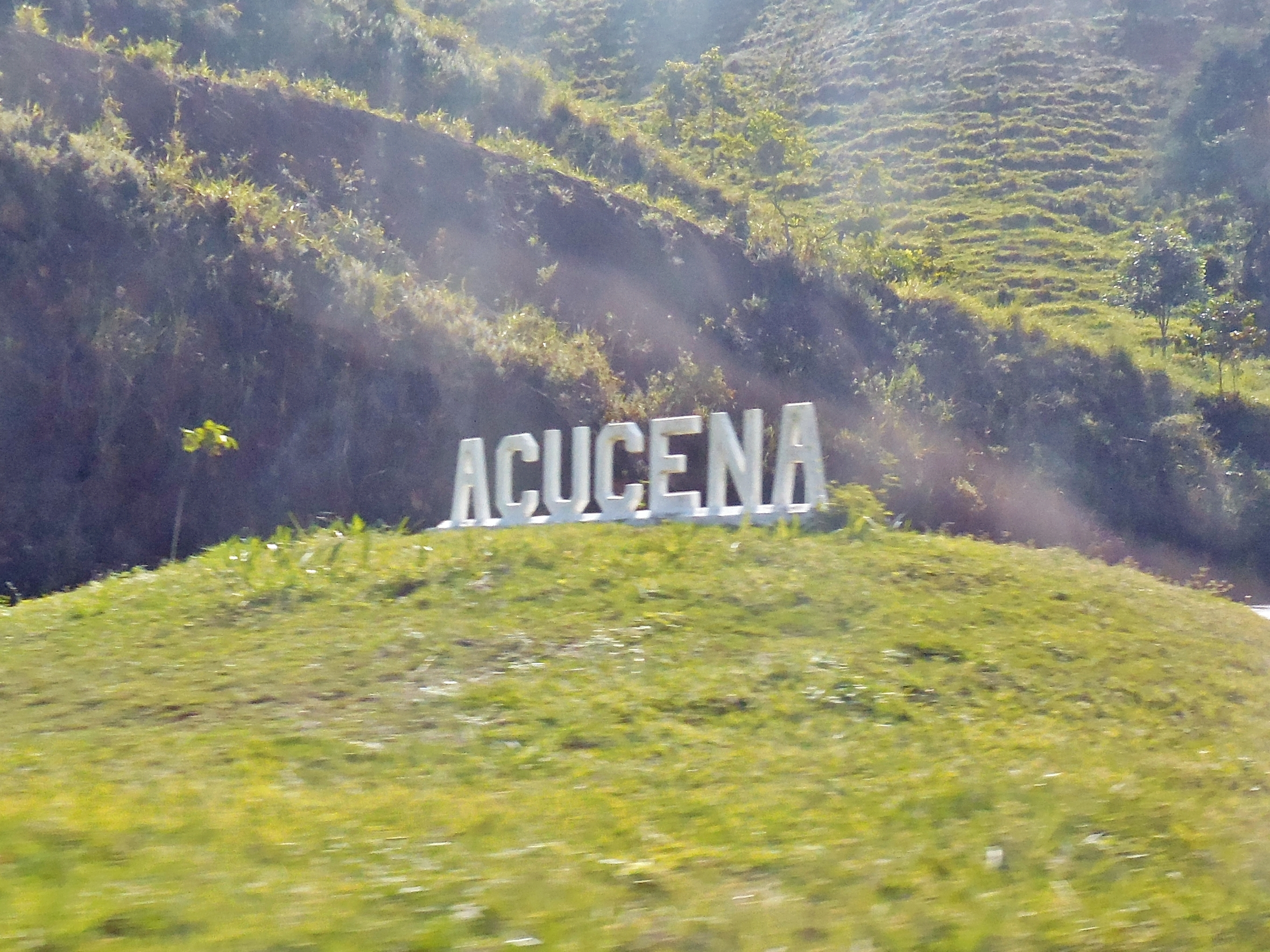 Entrance of Açucena, Minas Gerais, Brazil.